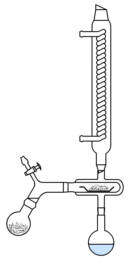 scheme of Abderhalden's drying pistol made in Macromedia Flash 5